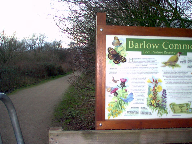 Dismantled Railway Track, Barlow Common Nature Reserve A section of disused and dismantled railway now turned into, and managed Nature Reserve.